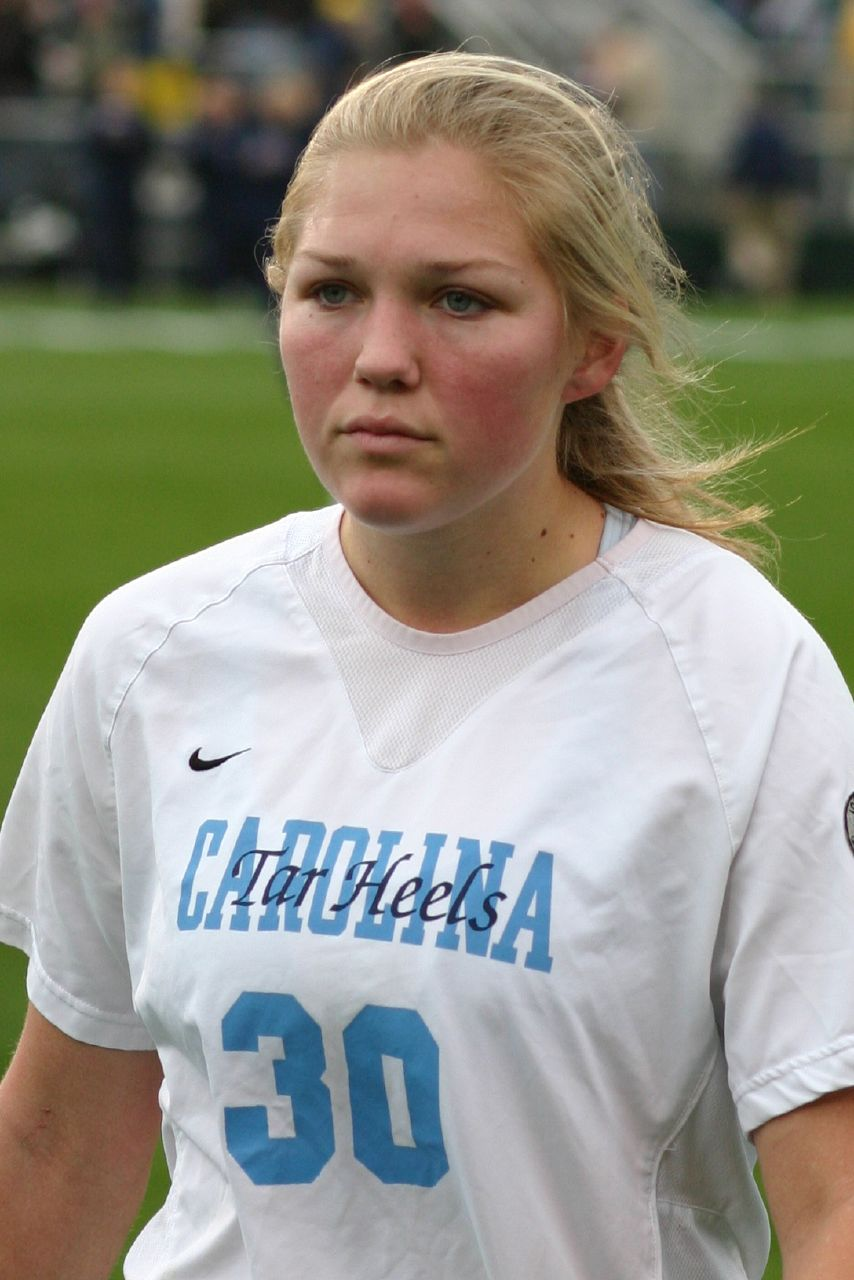 The UNC Tar Heels women defeated Notre Dame 2-1 to win their 18th national women's soccer title at SAS Soccer Park in Cary, NC on Sunday, December 3, 2006. UNC's goals were scored by Casey Nogueira and Heather O'Reilly.